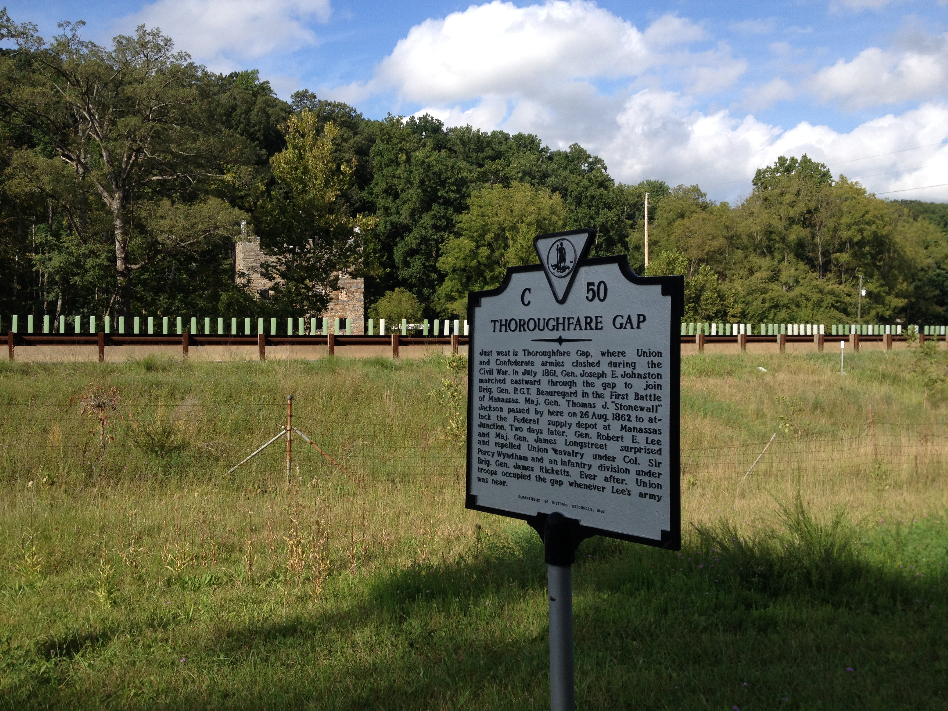 Thoroughfare Gap Battlefield, Junction of Interstate 66 and State Route 55 Broad Run Historical Marker with Beverley Mill ruins in background